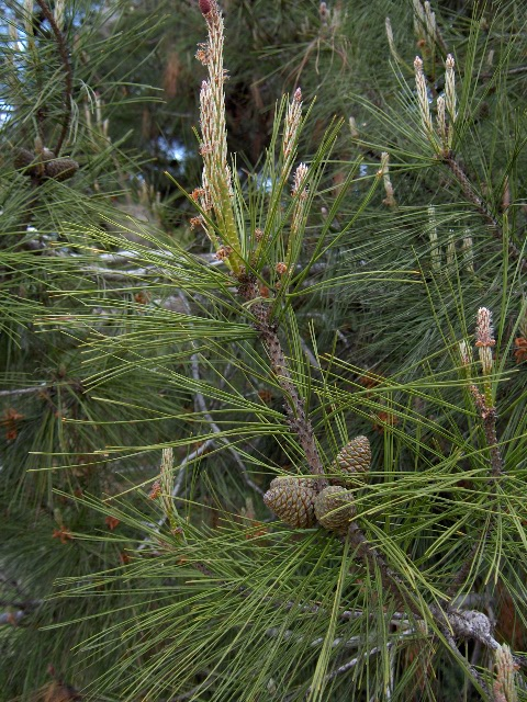 Name Pinus brutia Family Pinaceae Photo taken by Georges Jansoone in Side (Turkey) on 14 April 2005